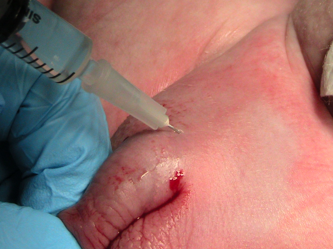 Injection of local anaesthesia into dorsal penile nerve